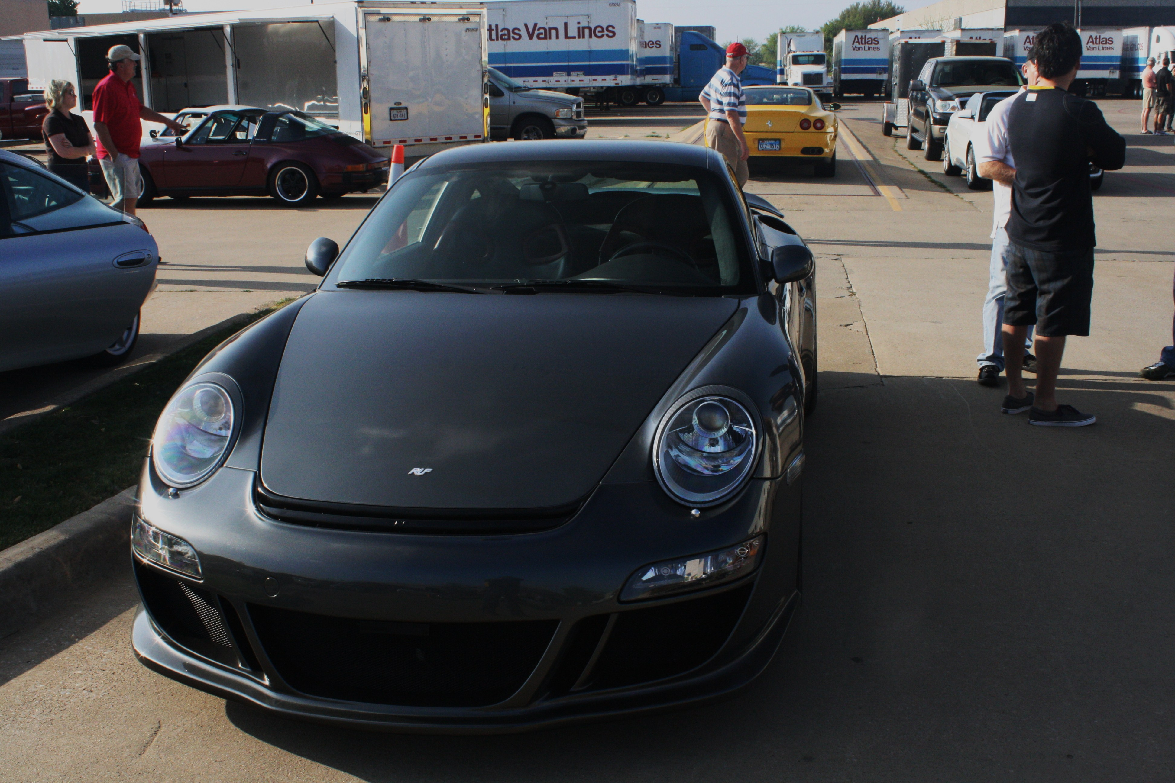 RUF RT12